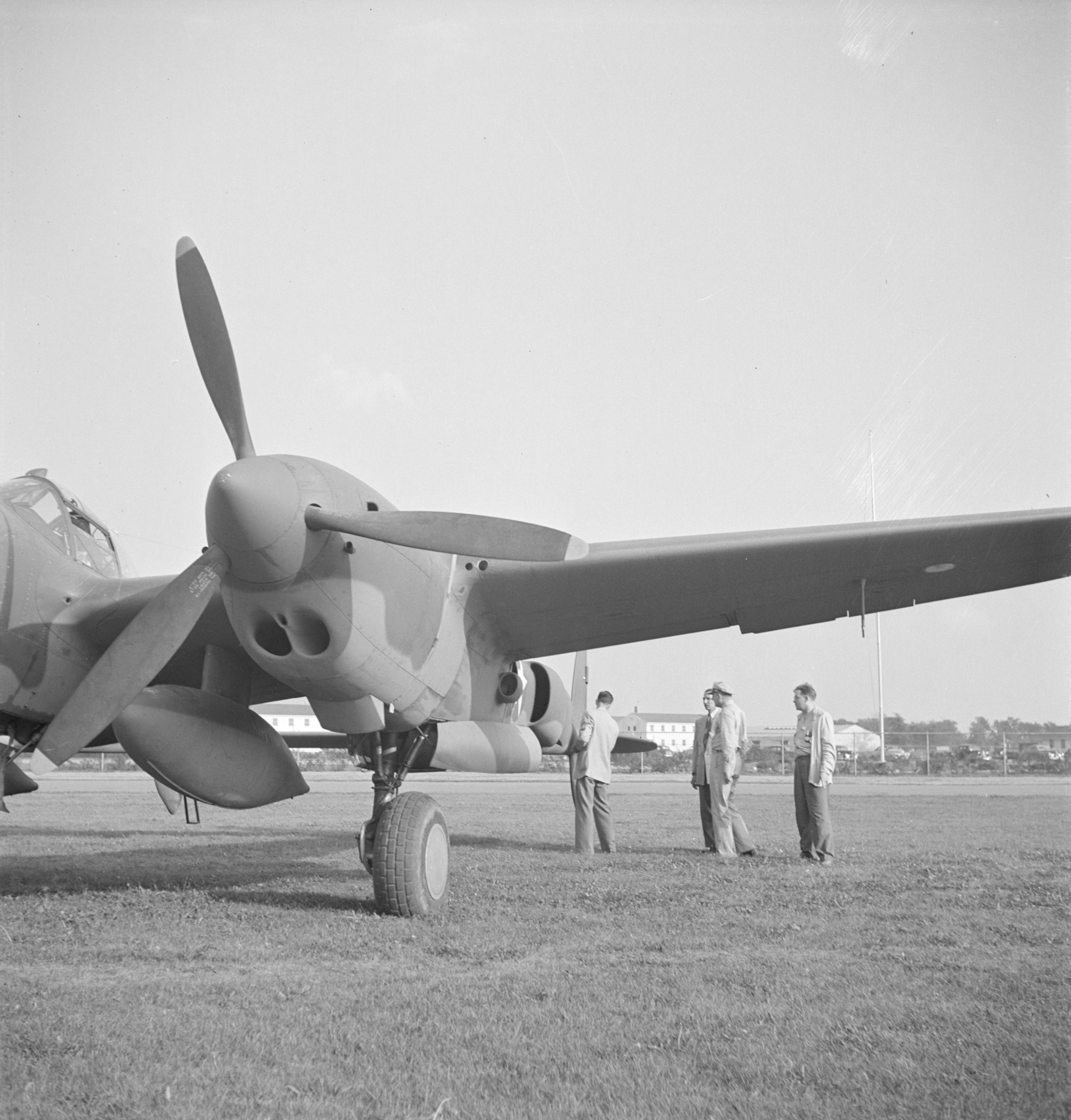 Lockheed P-38G-1-LO Lightning, serial 42-12723 (description). Original caption: Wayne County Airport, a United States Army Air Corps air ferry command base sixteen miles from Detroit, Michigan. Factory inspector and Captain Roddy